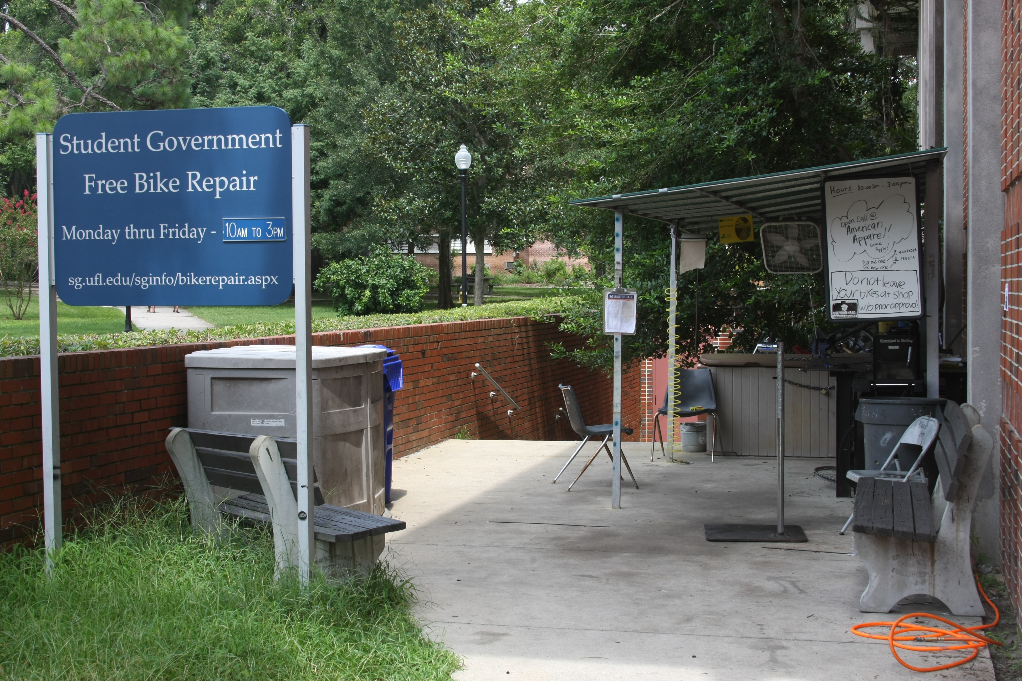 Free bicycle repair facilities sponsered by Student Government at the University of Florida